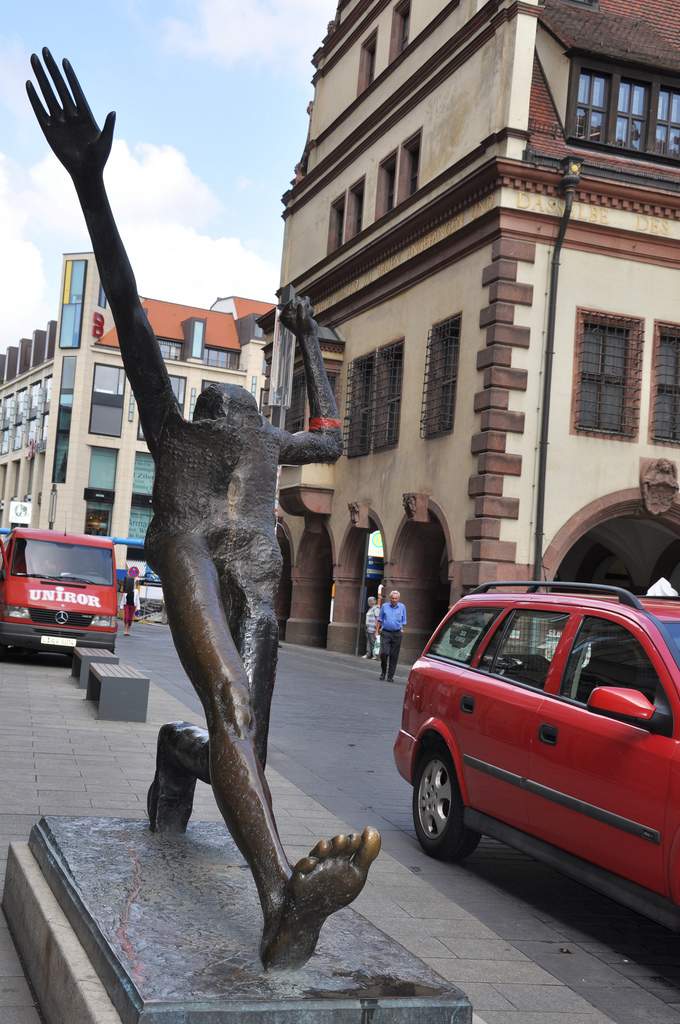 Wolfgang Mattheuer, "Der Jahrhundertschritt" (Step of Century), 1984. It is his best known work and an allegory for the 20-th century, showing the inner conflict of the last centuary: nazism and communism. However, for the artist it was also hope for a better future. Other copies in Bonn, Leipzig, Halle, Oberhausen.